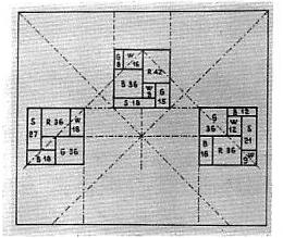 Theo van Doesburg. Diagram for Compisition XVIII. Photo. From Theo van Doesburg's portfolio (nr. 137).